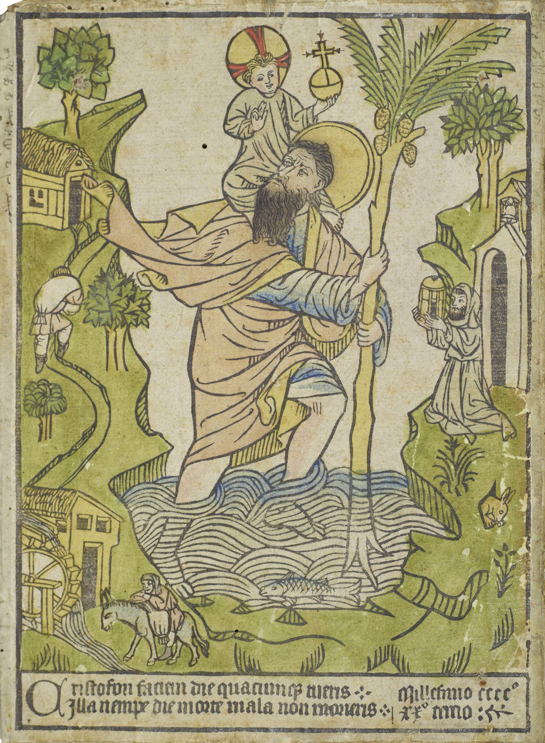 Woodcut print with hand-colouring of St Christopher from Buxheim on the Upper Rhine dated 1423. The print is held in the John Rylands Library in Manchester : it is preserved as an endpaper in a manuscript dated 1417 from Bohemia, the Laus Virginis. This is generally regarded as the earliest datable woodcut in Europe, although the date on the print could simply commemorate a particular event in that year. The inscription in latin can be translated "In whatsoever day thou seest the likeness of St Christopher, In that same day thou wilt from death no evil blow incur". First owner : Carl Heinrich von Heinecken (1706-1791).